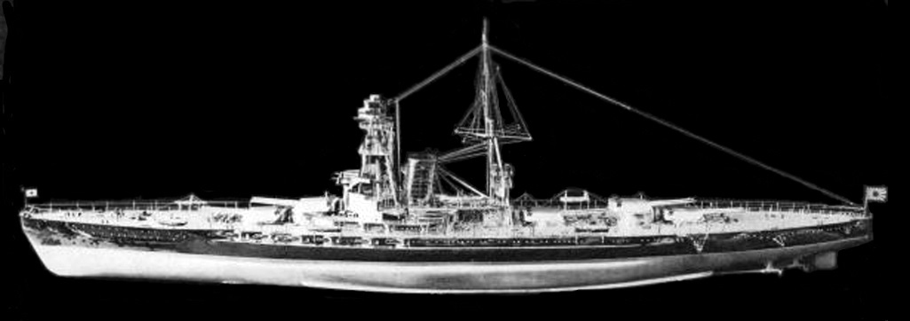 Model of battleship "Kaga" of the Imperial Japanese Navy, port view. It is made in Kawasaki Shipyards and opened to the public around 1925.